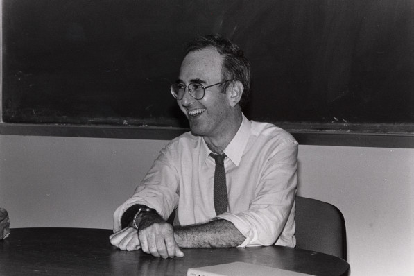 Faculty, Creative Writing Program